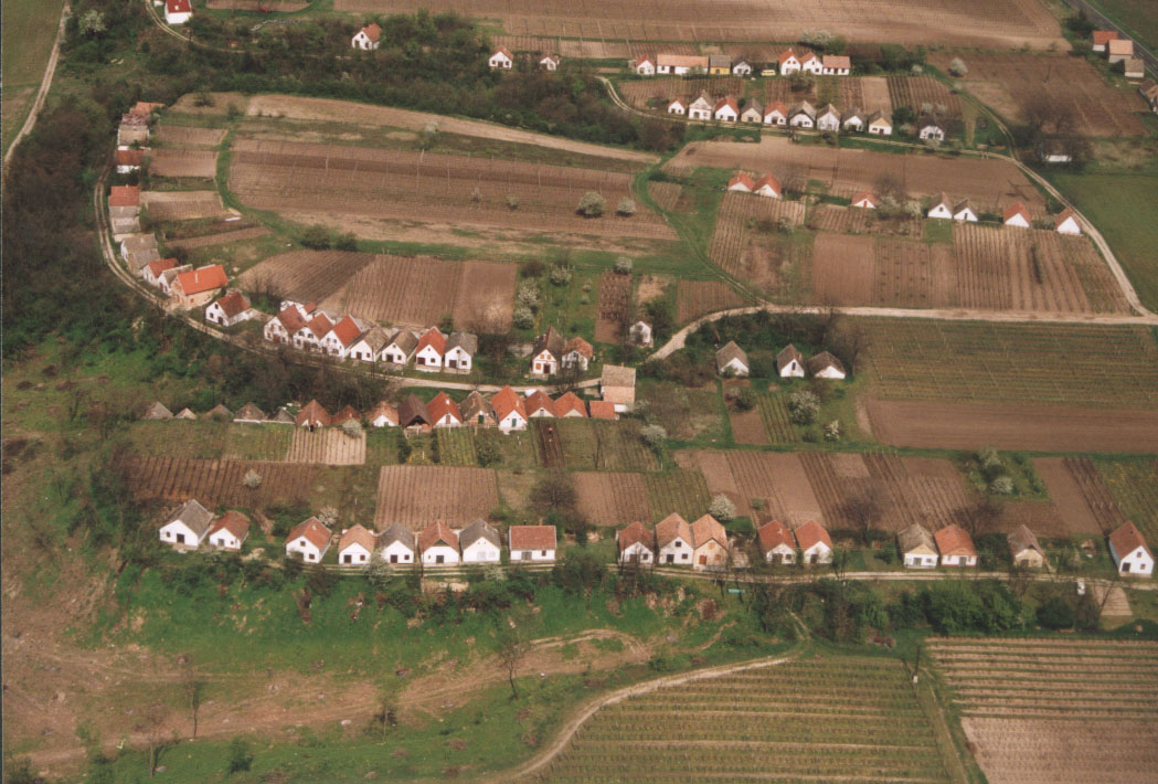 Wine cellars - Hajós - Hungary - Europe